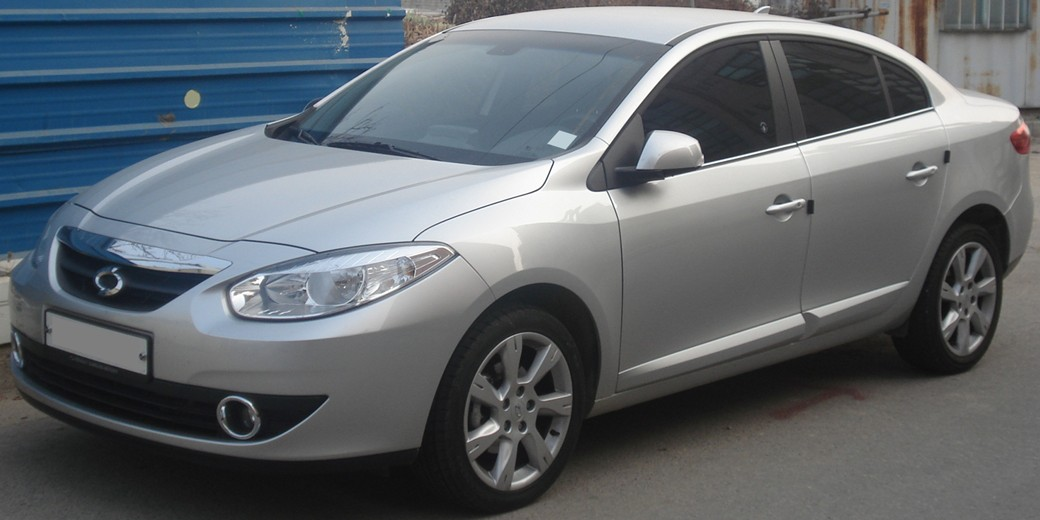 Renault Samsung New SM3